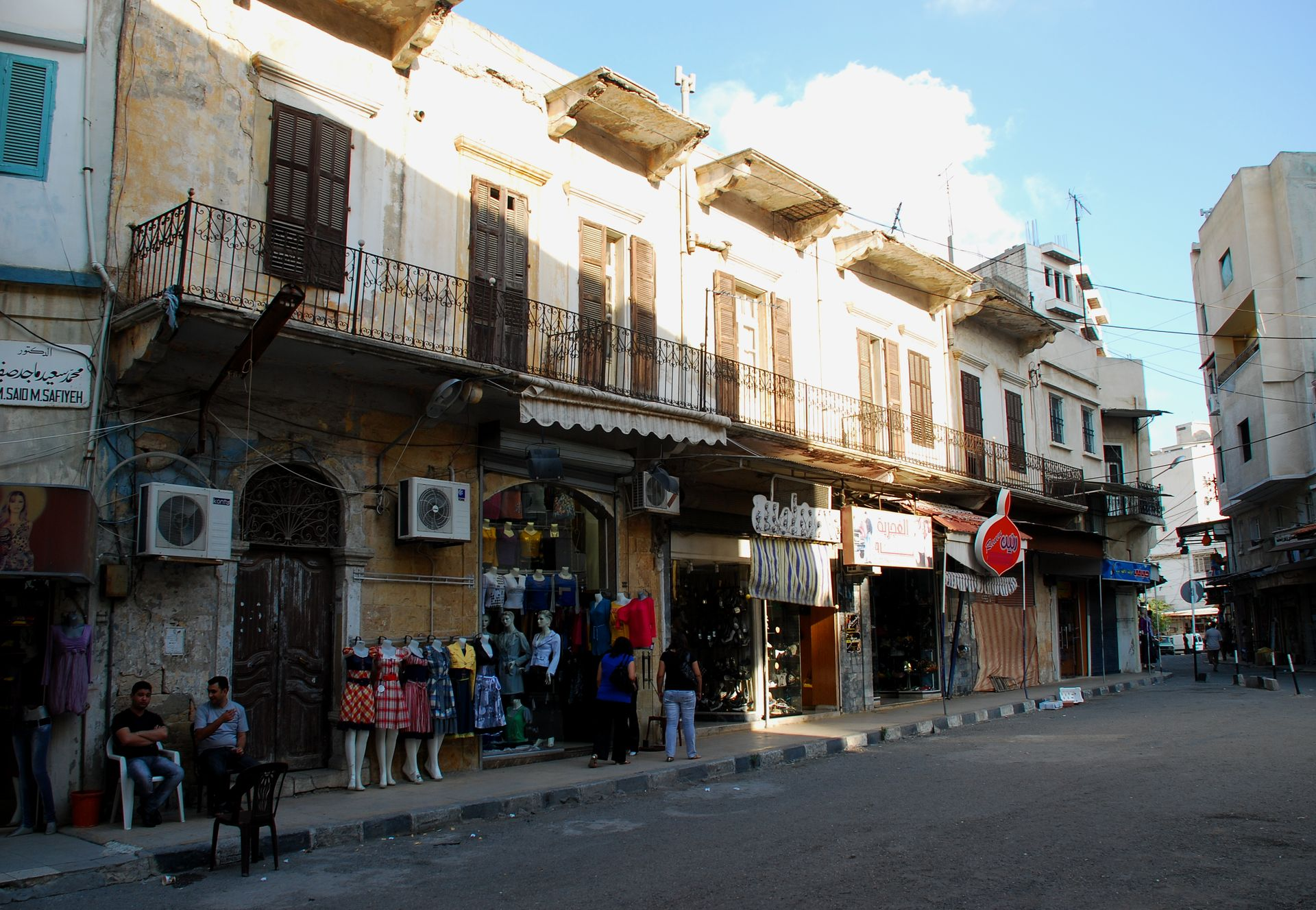 Old house and shops — old centre Latakia, in Syria.